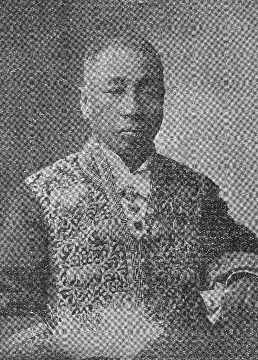 Portrait of Namura Taizo (名村泰蔵, 1840 – 1907)